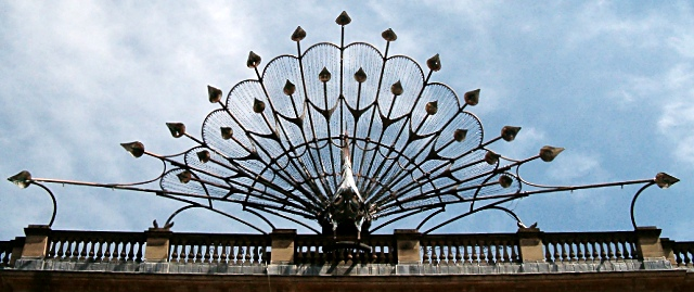 Peacock sculpture. This sculpture of a peacock surmounts the Buchanan Street facade of the Princes Square shopping centre